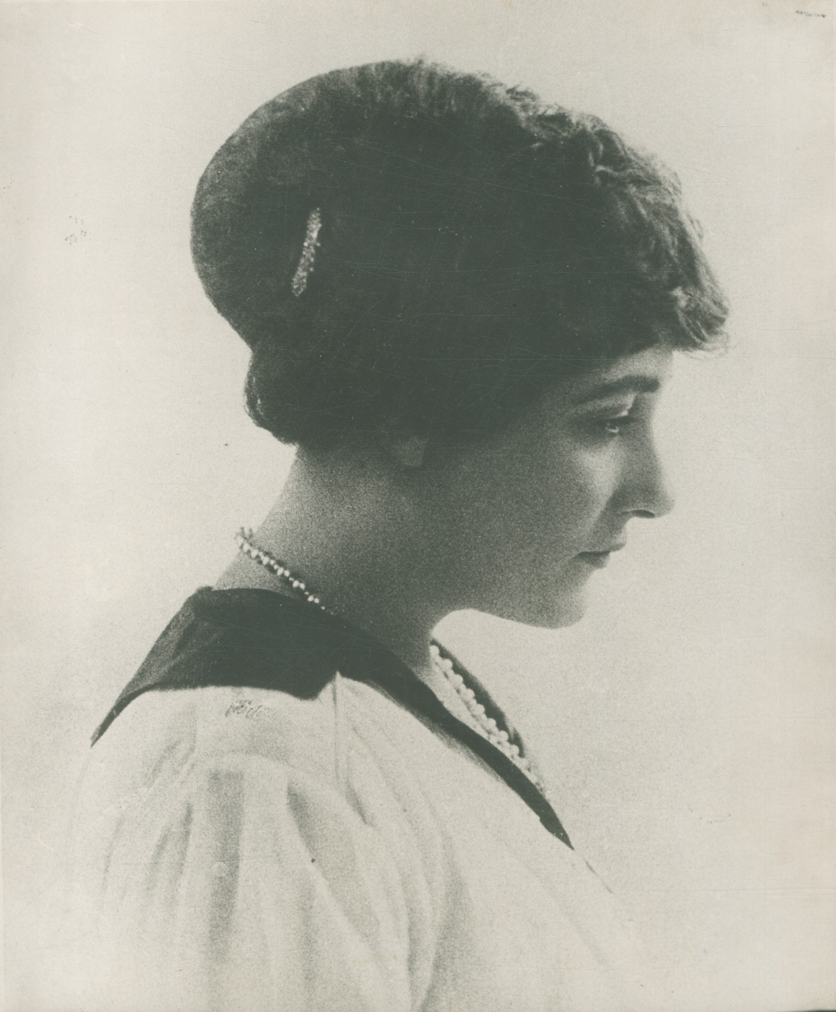 Mabel Gordon Dunlop Grujić. Srpski (latinica): Mejbel Gordon Danlop Grujić.